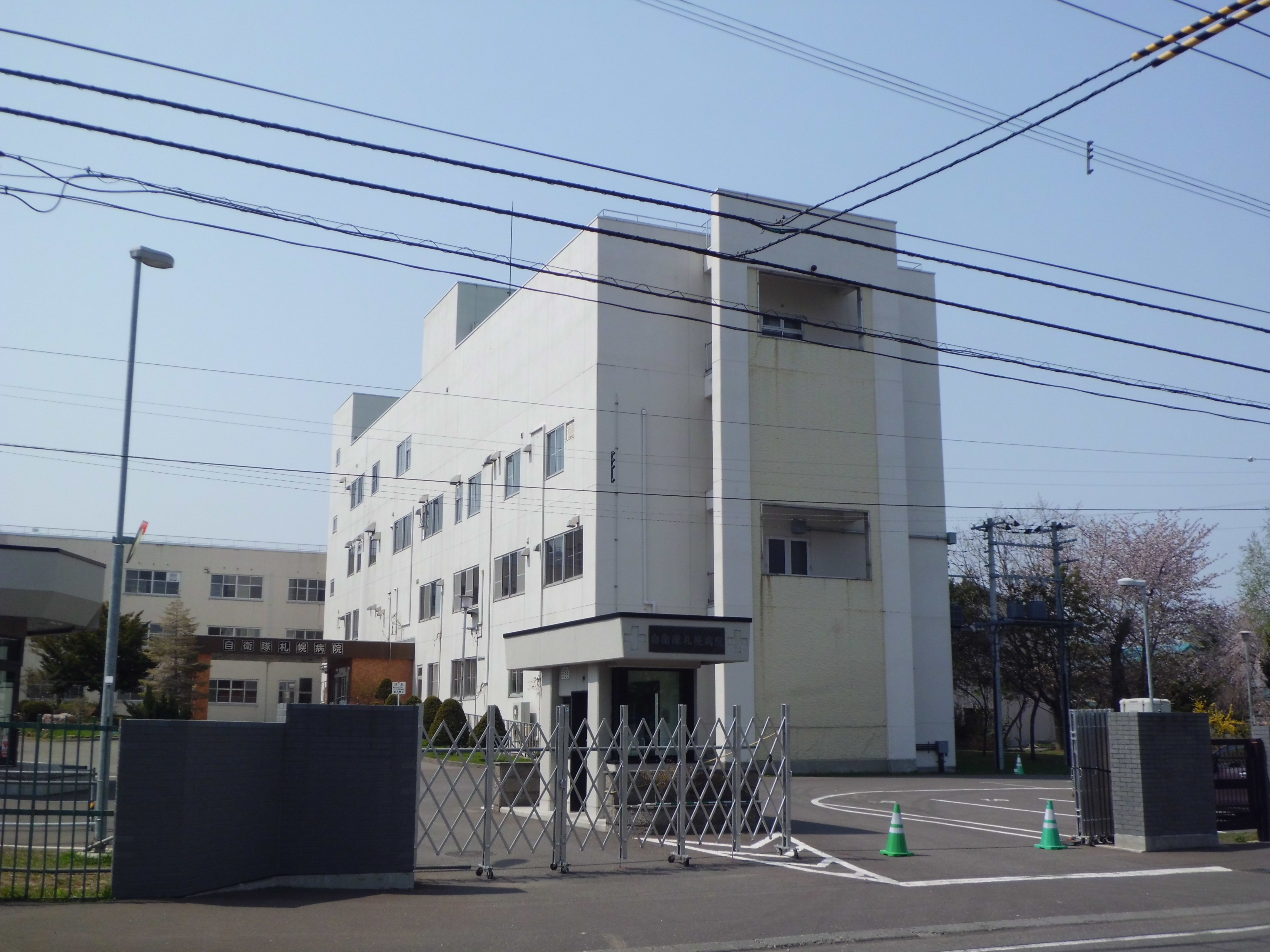 Japan Self Defense Forces Sapporo Hospital of Camp Toyohira